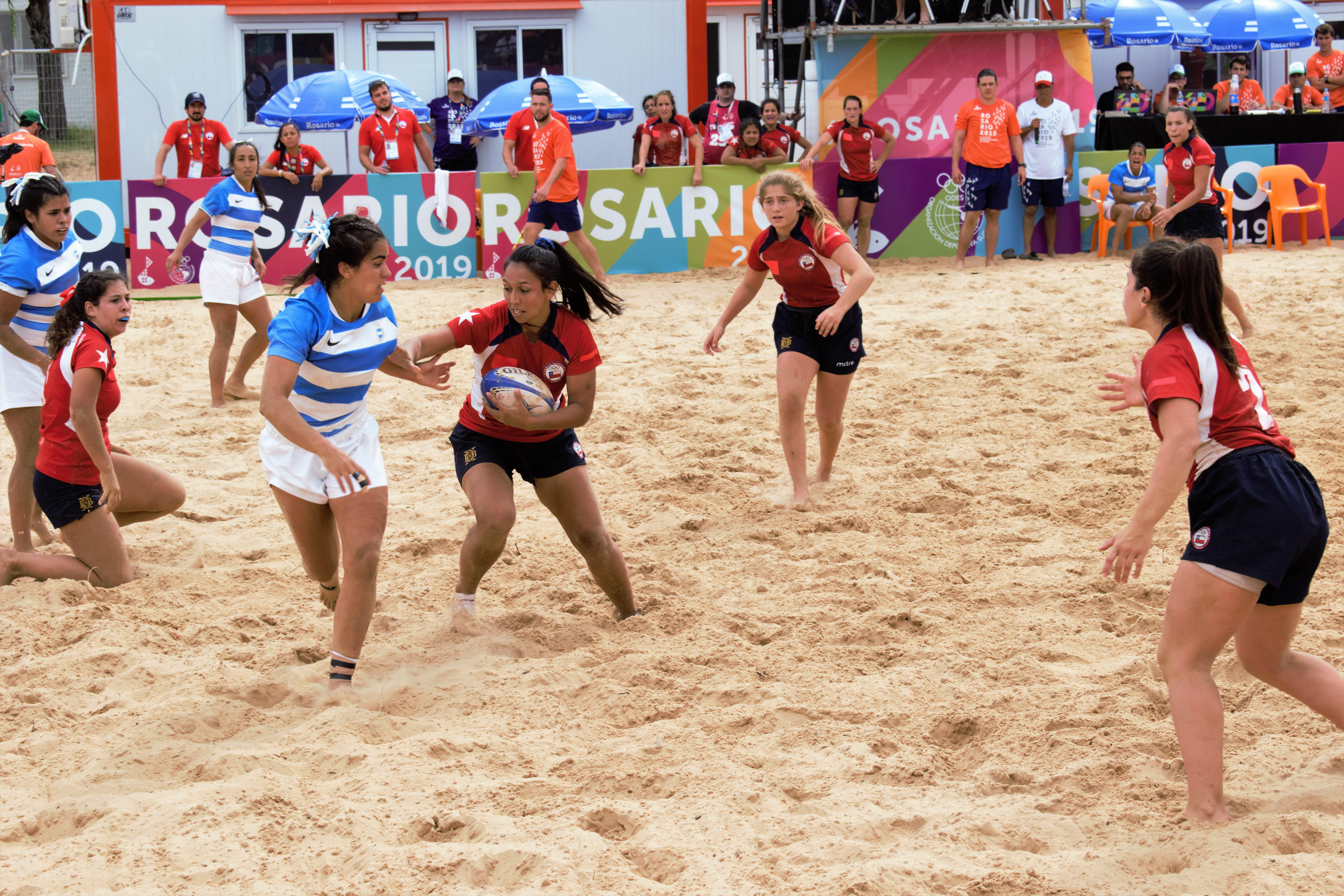 Beach Rugby at the 2019 South American Beach Games. Gold Medal Match, Argentina vs Chile.